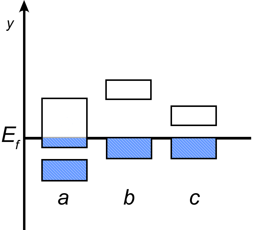 a:metalic conductor type Isolator type Semiconductor Ef: Fermi energy --- Create by pixeltoo -- 24 july 2005.